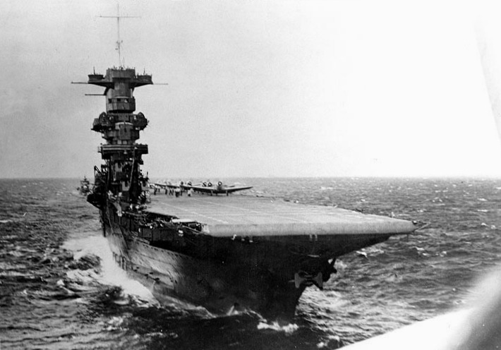 The U.S. Navy aircraft carrier USS Saratoga (CV-3) launches Douglas TBD-1 Devastator aircraft from Torpedo Squadron VT-3, circa summer 1941, as seen from the rear cockpit of a plane that has just taken off.